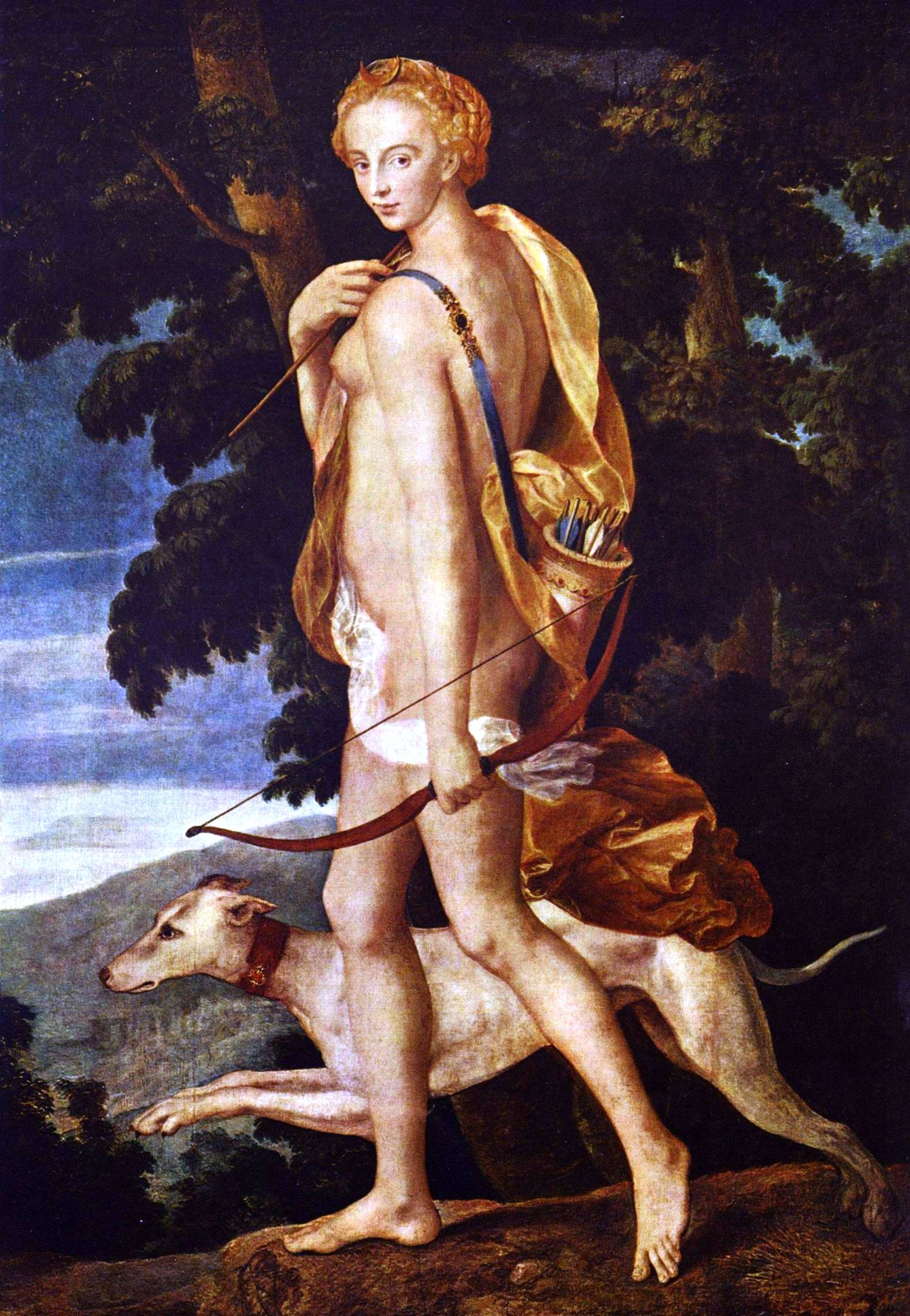 Depicted person: Probably Diane de Poitiers without frame